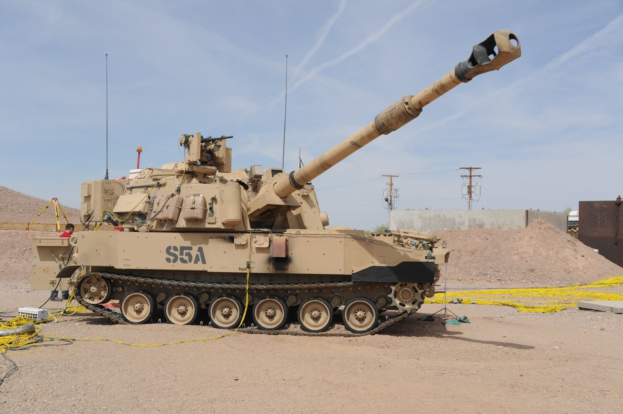 M109A7 155mm self-propelled howitzer being tested at Yuma Proving Ground, Arizona